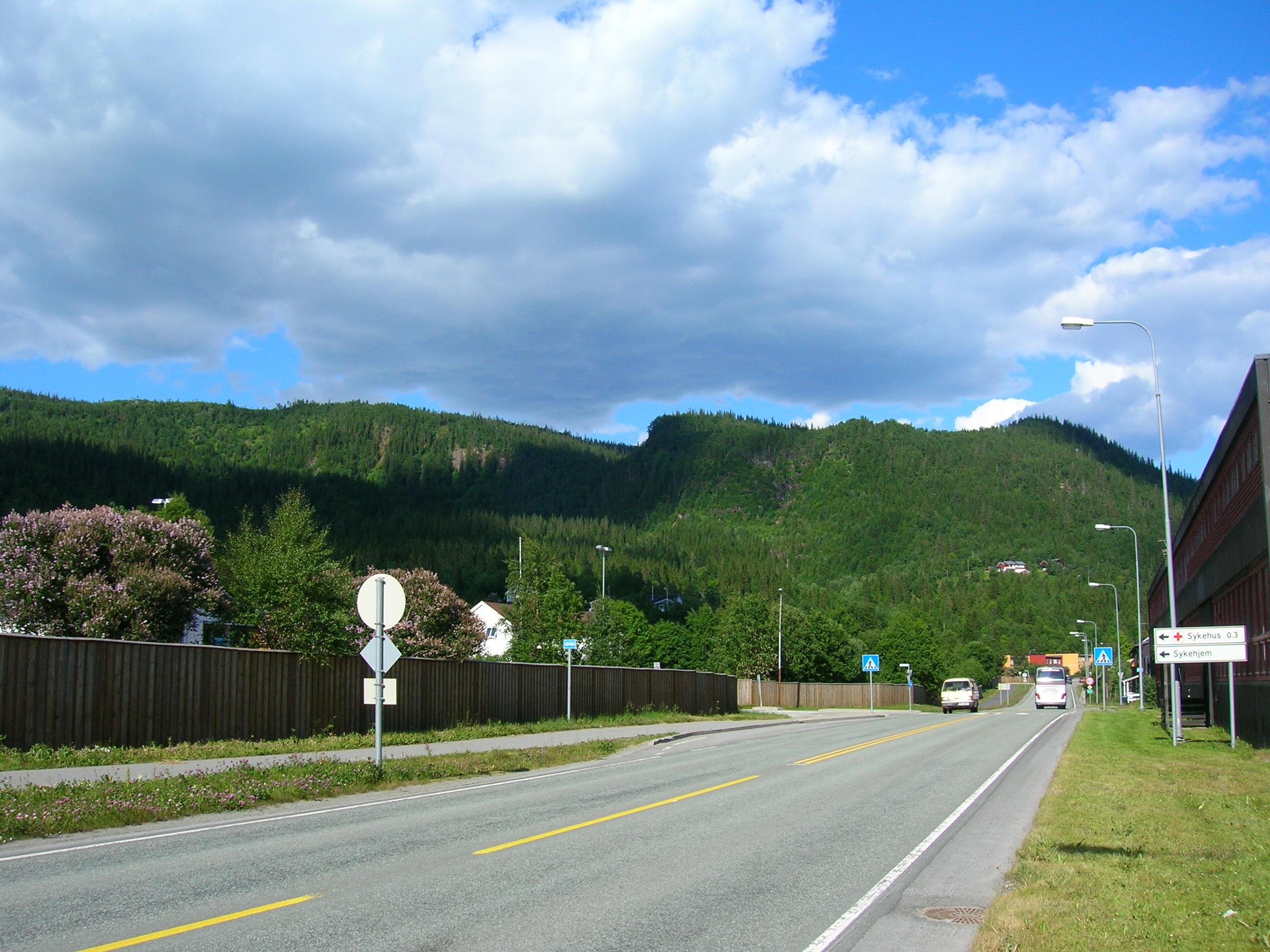 European route 6 passing the urban district of Selfors in Mo i Rana, Rana municipality, county of Nordland, Norway. Photo 4 July, 2007 with a Nikon Coolpix 5600 5,1 Megapixel camera.